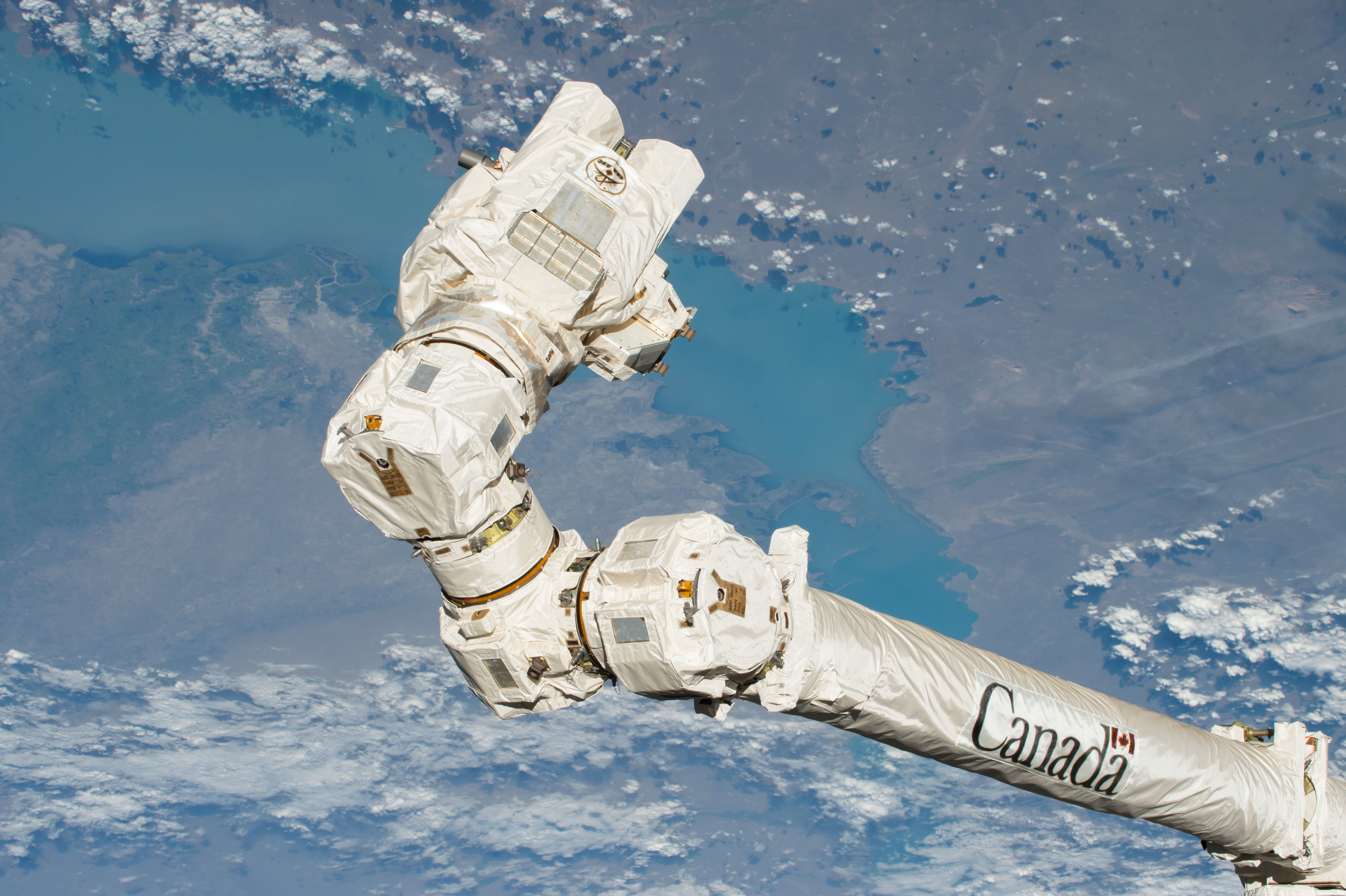 Canadarm2 Latching End Effector and joints.